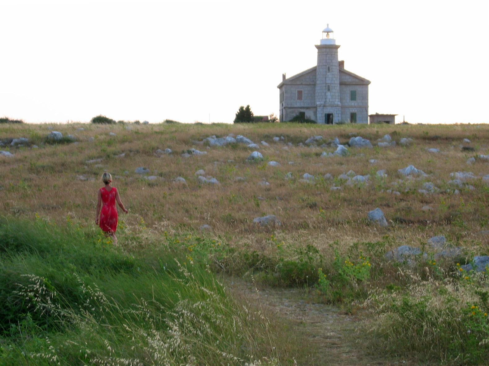 Trstenik, small island between Cres and Pag islands in the Kvarner area of Adriatic sea, Croatia. photo:Ziga 12:47, 11 April 2007 (UTC)